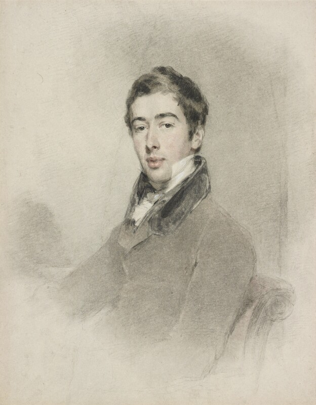 Portrait of George Vincent (1796 – c.1832), an English landscape and marine painter.